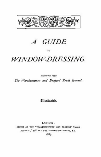 The image featured is an edited fascimile of the title page of an anonymous work published in 1883 entitled A Guide to Window-Dressing. It was published by the now defunct WH and L Collingridge publishing house at the London City Press building on Aldersgate Street, London, England, in the United Kingdom. The text was first published in the The Warehousemen and Drapers' Trade Journal earlier in 1883, submitted by the same anonymous author to London: office of the 'The Warehousemen and Drapers' Trade Journal,' 148 and 149, Aldersgate Street, E.C. in London, England, in the United Kingdom. The image was copyed and pasted from a PDF file on Google Books and then sharpened for better readability in COREL Photo-Paint program for Windows XP. This portion of the file is of my own work, and I freely release it to the public and to Wikimedia Commons. For more information please see these links: [1], [2]